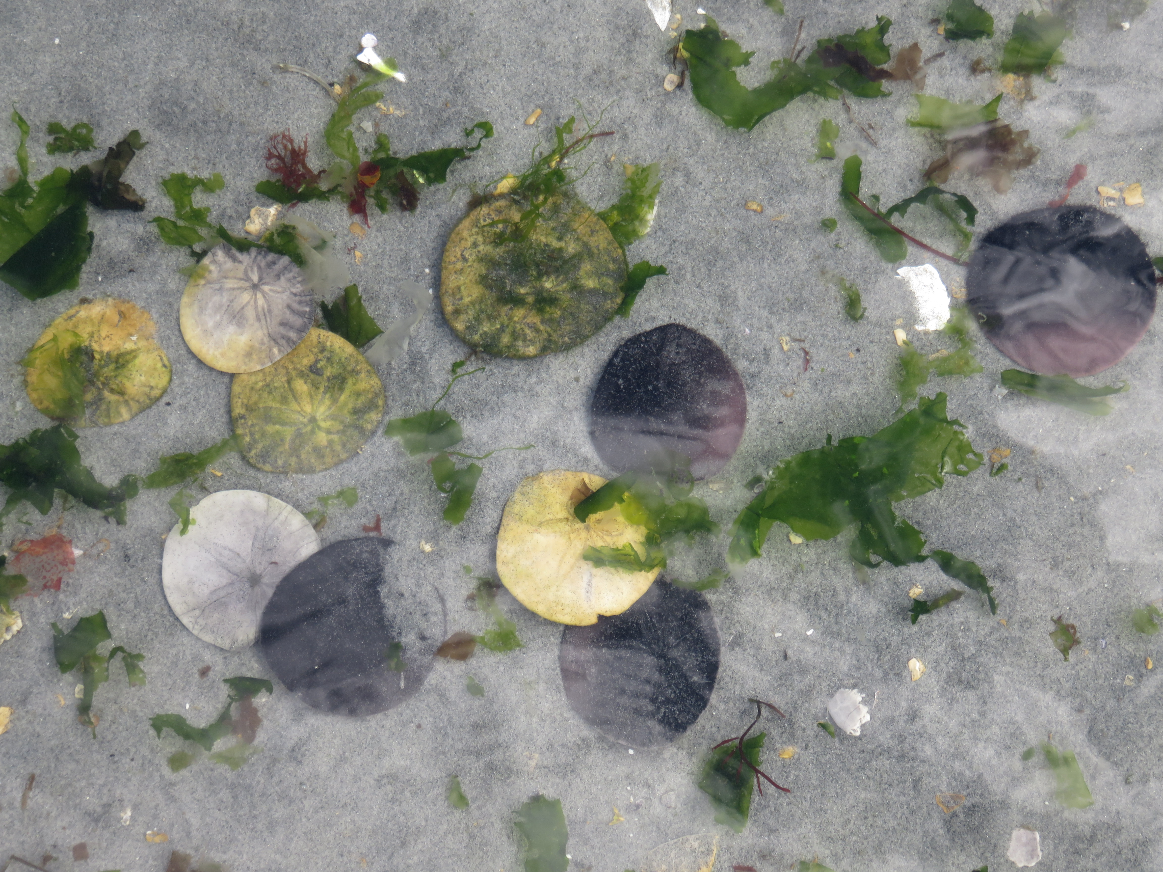 Sand dollars on Miracle Beach. The black ones are living; the white ones are empty shells. This photo was taken in a protected area in Canada, Wikidata item Miracle Beach Provincial Park (Q786926)